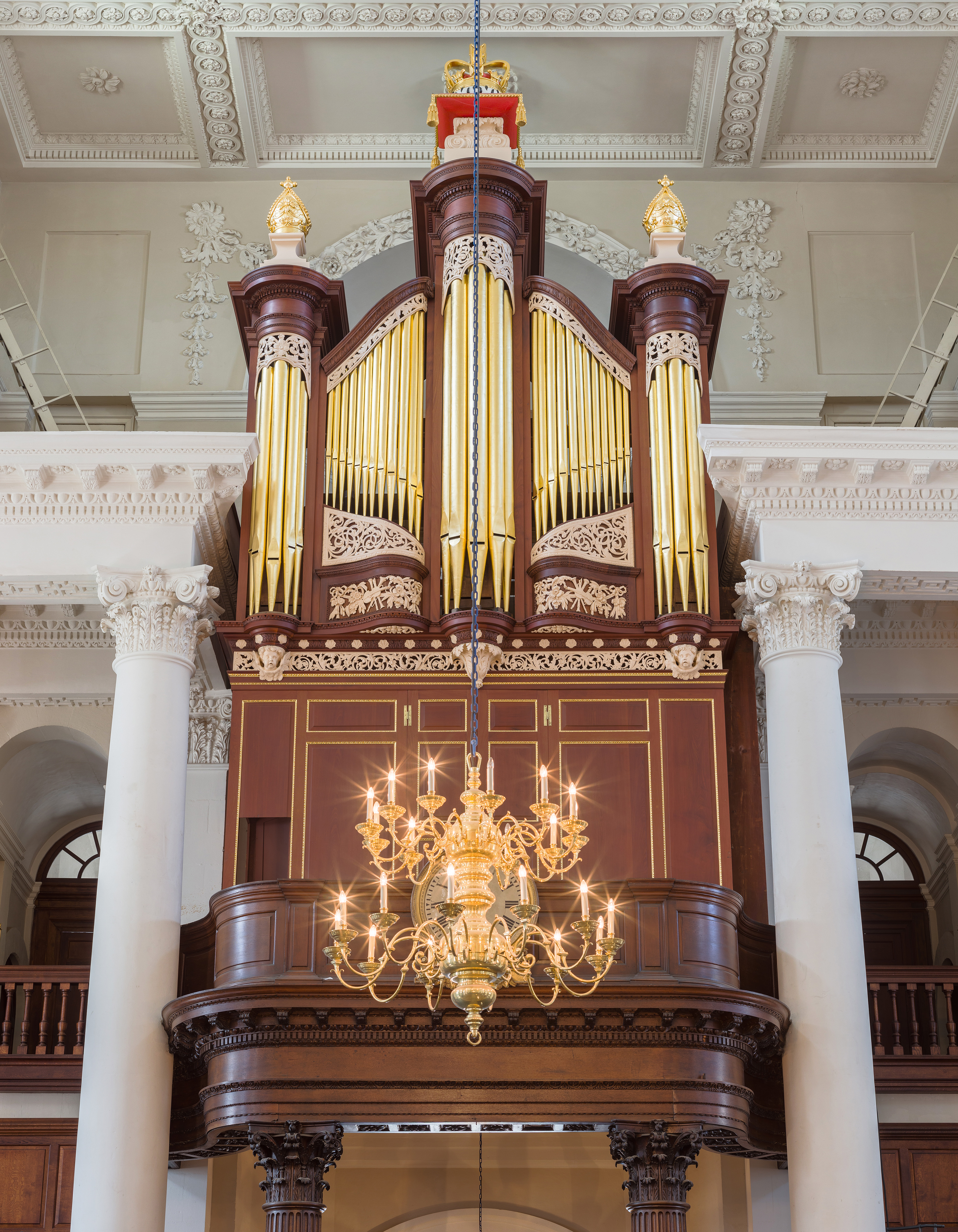 The organ of Christ Church, Spitalfields in London, England.